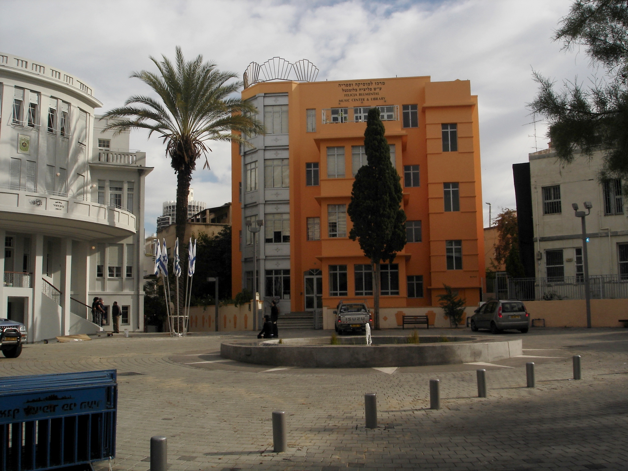 Bialik square with the new pool, replacing the sculpture of Gutman